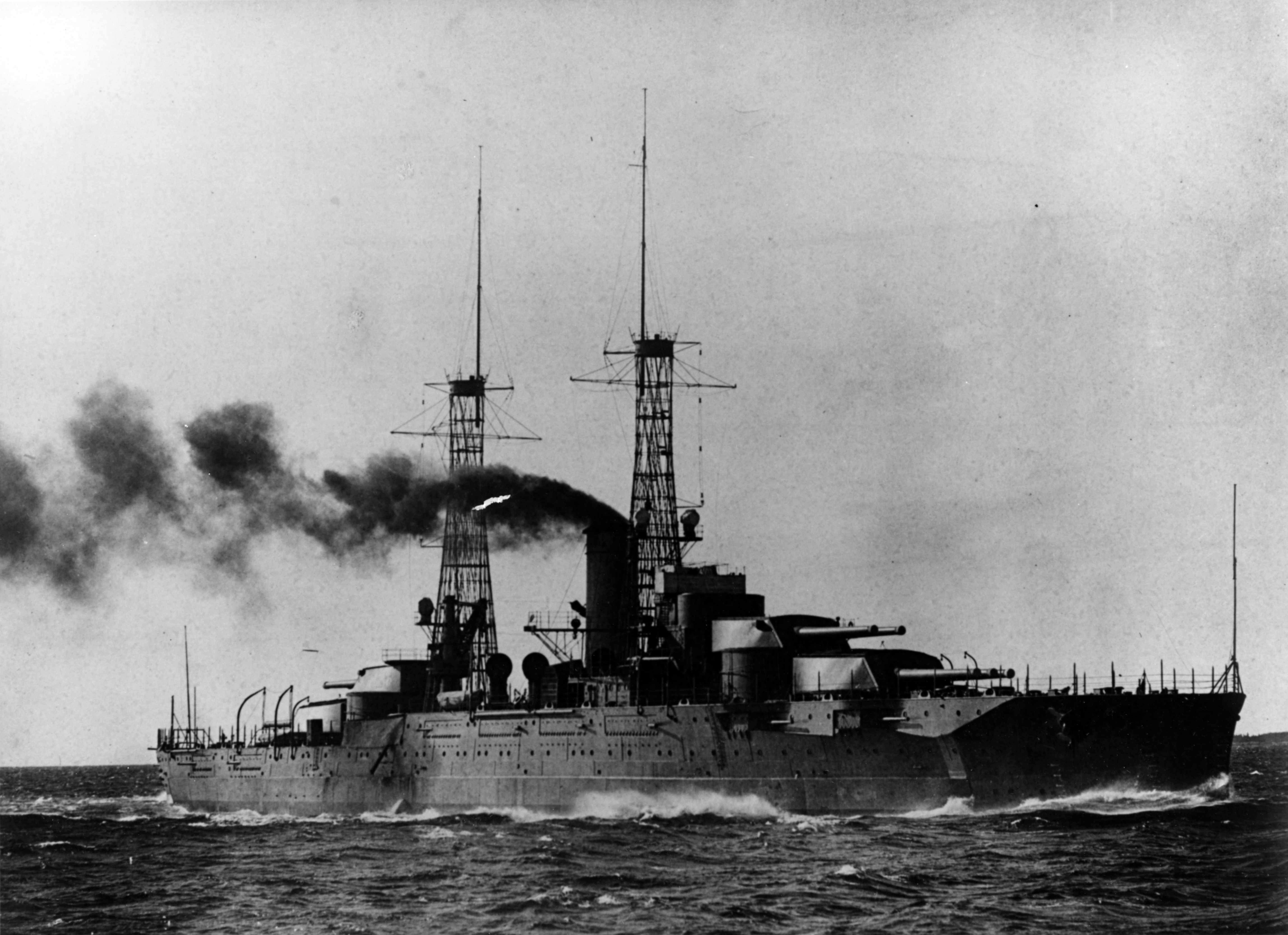 Running trials, circa early 1916. U.S. Naval History and Heritage Command Photograph.